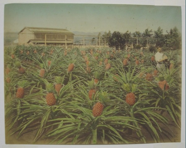 Tinted albumen photograph of Hawaiian pineapple field in the 1880s by Danish-born amateur photographer Christian Hedemann.